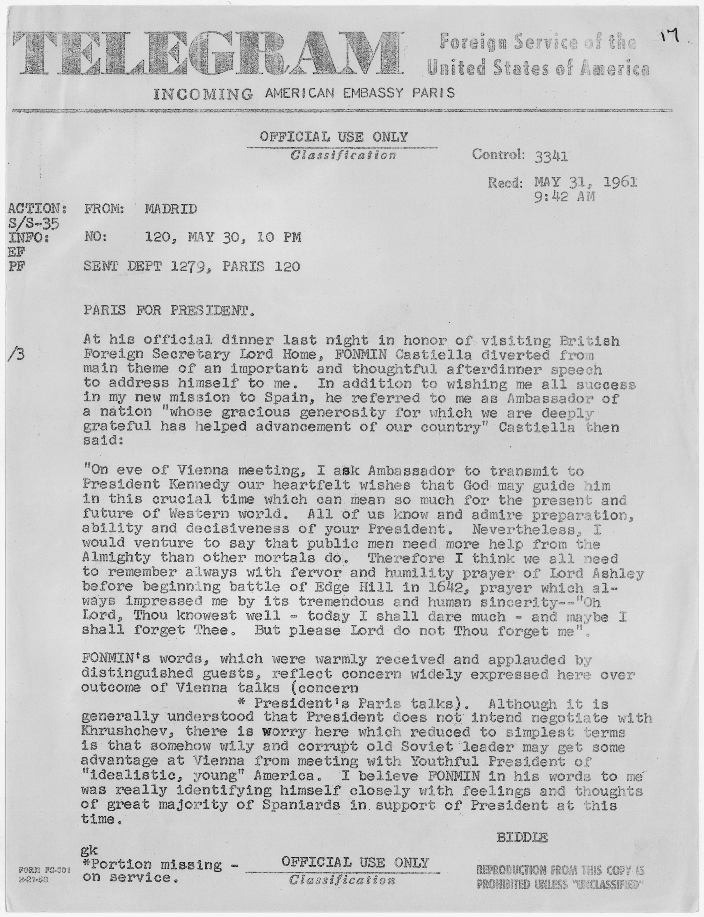 Scope and content: Telegram from United States Embassy, Paris to the President on his meeting in Vienna.